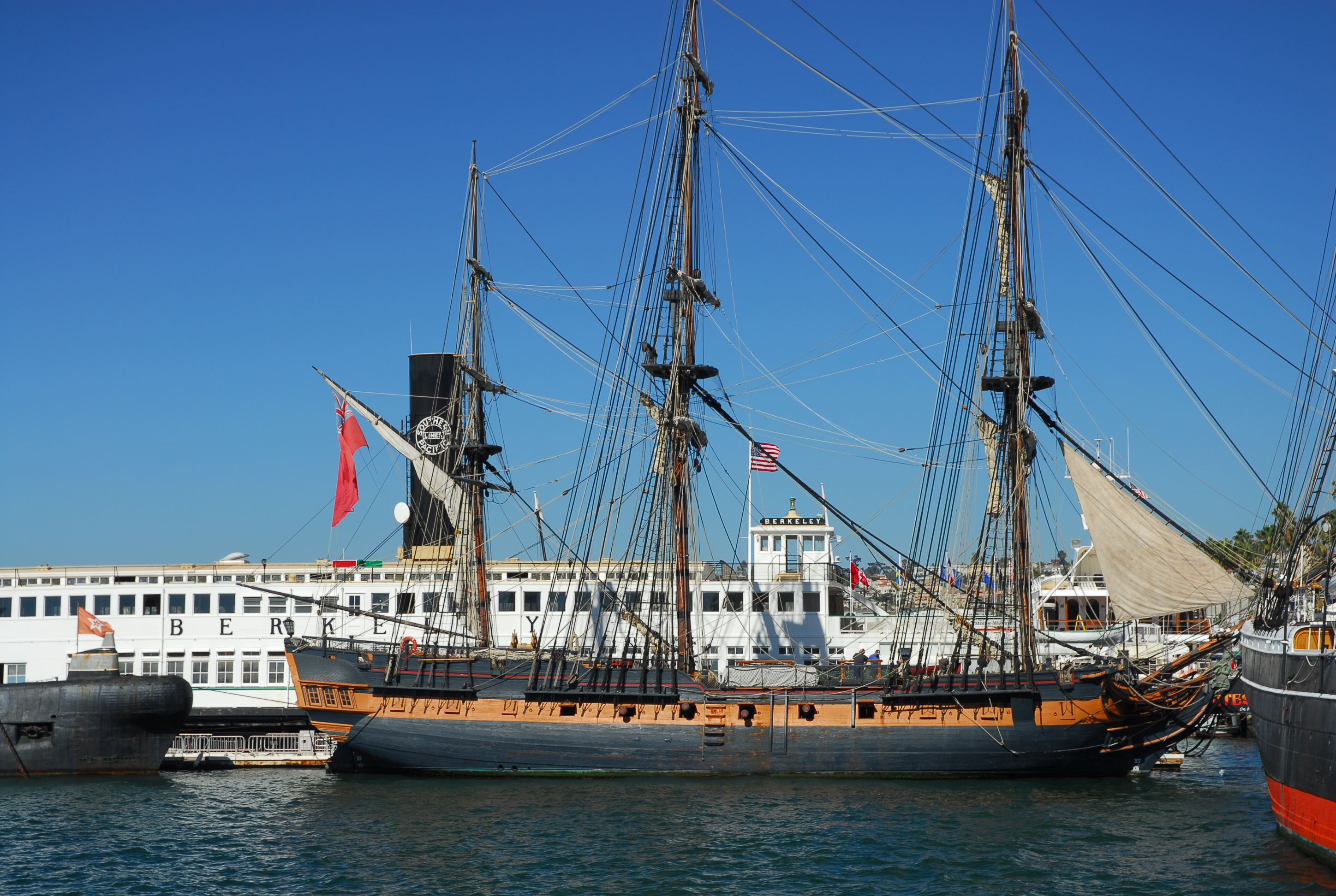 HMS Surprise (replica ship)